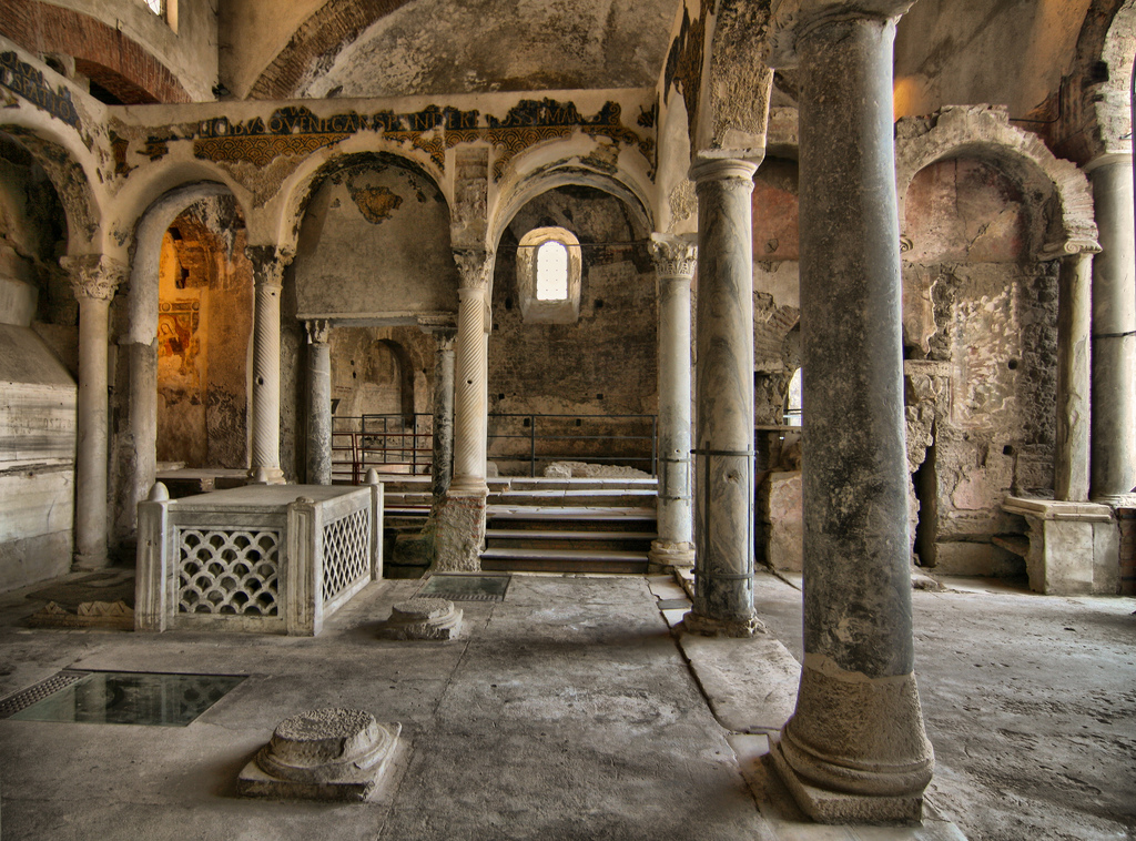 Paleochristian basilic of San Felice in Cimitile, near Nola, with the ancient tombs of Saint Felix and Saint Paulinus of Nola.